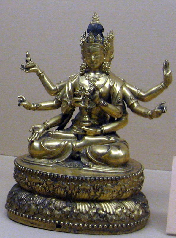 Usnivijaya